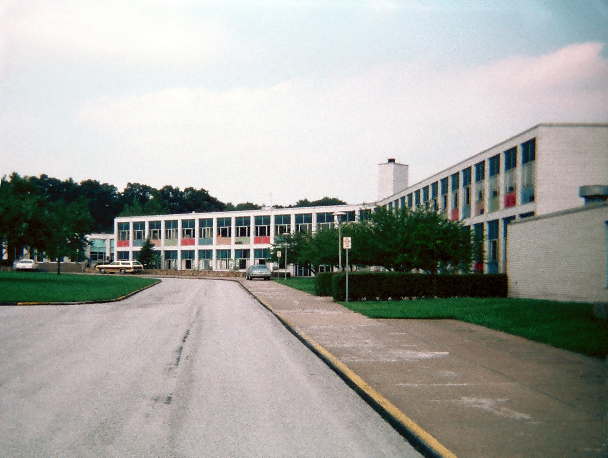 Ingomar Middle School in Pittsburgh, Pennsylvania.